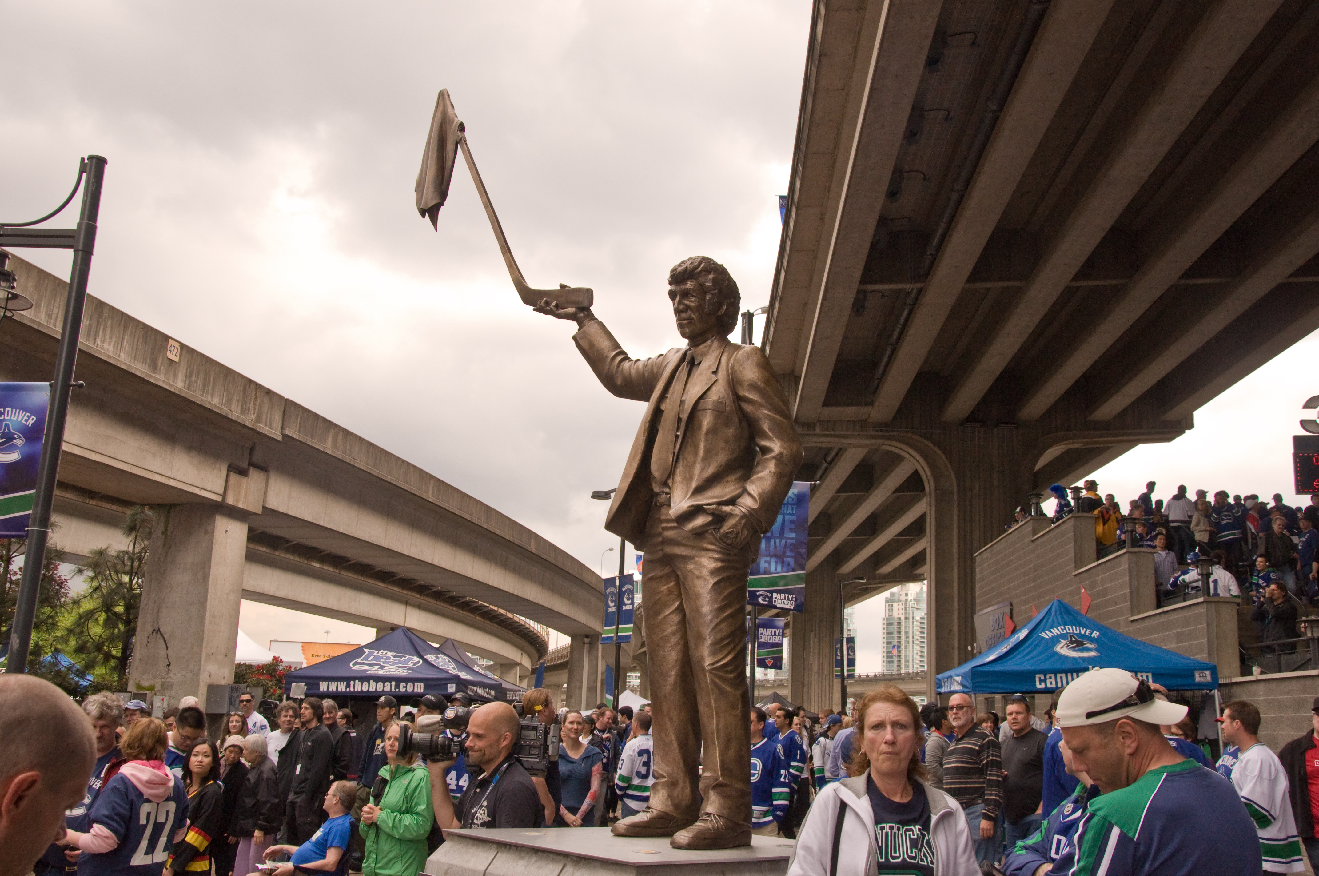 Statue of Roger Neilson outside of Rogers Arena during the 2011 Stanley Cup Final, June 2011.